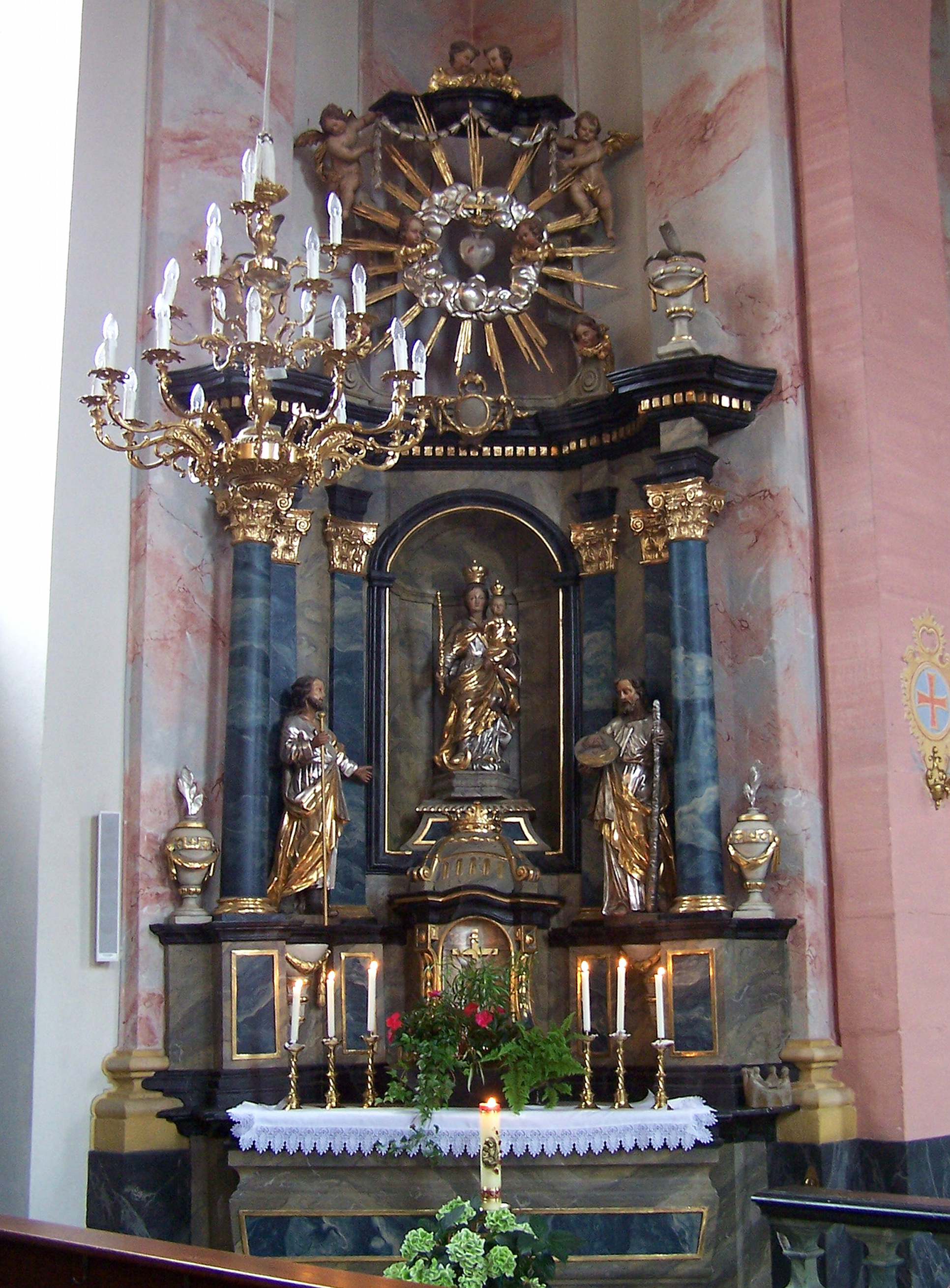 Altar of St. Mary in the baroque catholic church St. John the Baptist in Mönchberg, July 2012